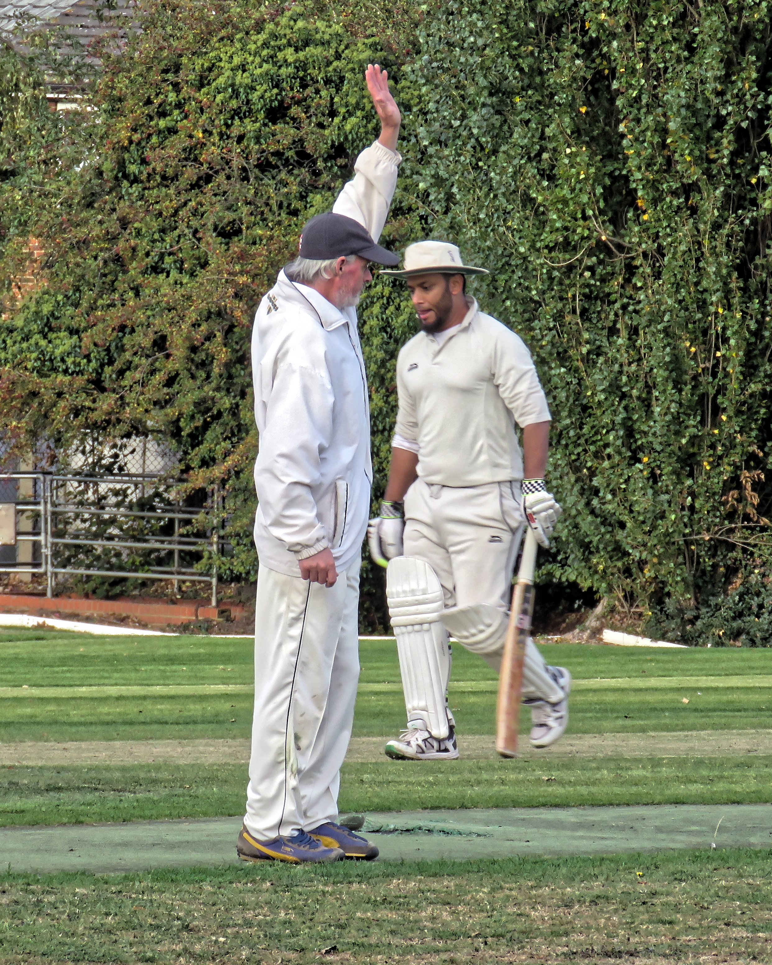 A Sunday public friendly cricket match between Abridge Cricket Club Sunday 1st XI and the North London Hadley Wood Green Sports Cricket Club Friendly XI (batting), at Abridge, Essex, England.Mobile device view: Wikimedia (as at 2018) makes it difficult to immediately view photo groups related to this image. To see its most relevant allied photos, click on Abridge Cricket Club, Hadley Wood Green Sports Cricket Club, and this uploader's Cricket photos. You can add a beta click-through 'categories' button to the very bottom of photo-pages you view by going to settings... three-bar icon top left.Desktop view: Wikimedia (as at 2018) makes it difficult to immediately view the helpful category links where you can find images related to this one in a variety of ways; for these go to the very bottom of the page.This image is one of a series of date and/or subject allied consecutive photographs kept in progression or location by file name number and/or time marking, on occasion using different cameras to shoot the same subject at the same time.Camera: Canon PowerShot SX60 HSSoftware: File lens-corrected, optimized, perhaps cropped, with DxO PhotoLab, and likely further optimized with Adobe Photoshop CS2.